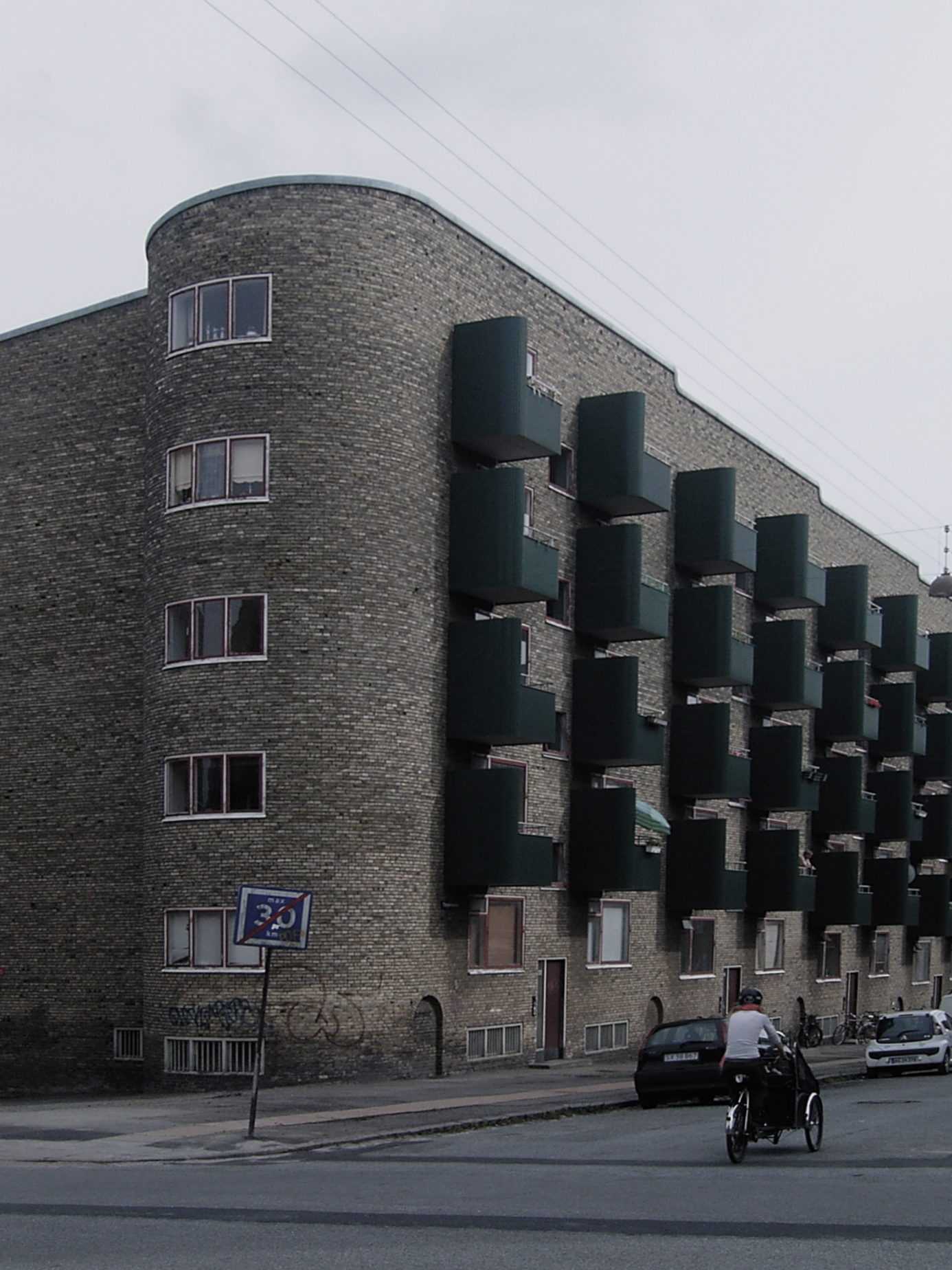 Storgaard in Copenhagen, Denmark. The architect was Povl Baumann